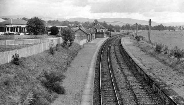 Biggar Station (remains). View eastward, towards Peebles; ex-Caledonian Symington - Peebles branch. Passenger service ceased 5/6/50, goods (Symington - Broughton) 4/4/66. On horizon is Black Mount (1,639 ft.) and Broughton Heights.